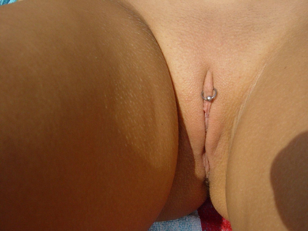 One vulva says more than a thousand words. Be courageous - post your poontang.